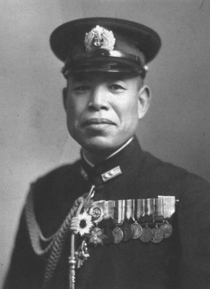 Japanese Admiral Seiichi Itō of the Imperial Japanese Navy. Itō was posthumously promoted from vice admiral to full admiral (Gensui).